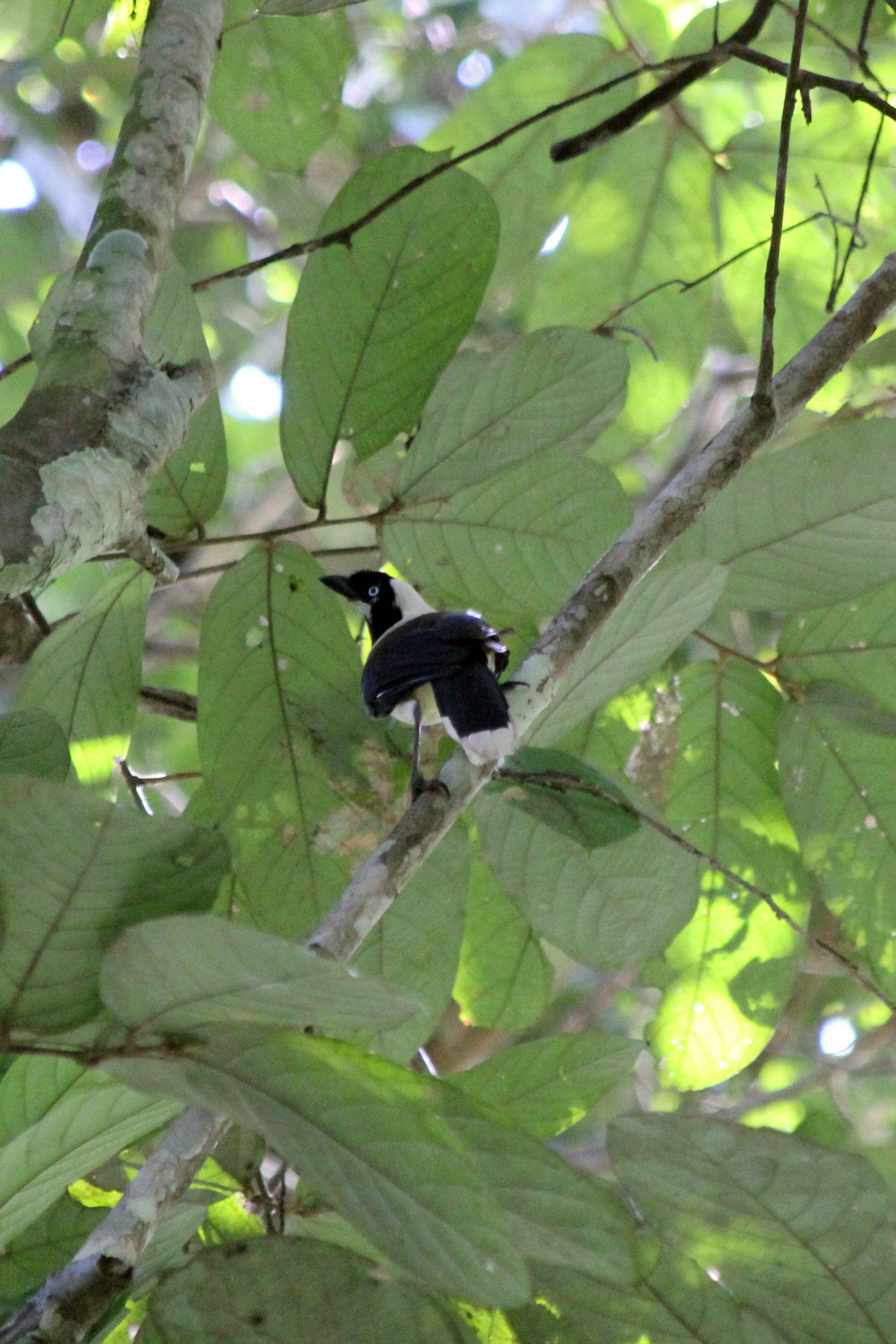 Cayenne Jay (Cyanocorax cayanus)